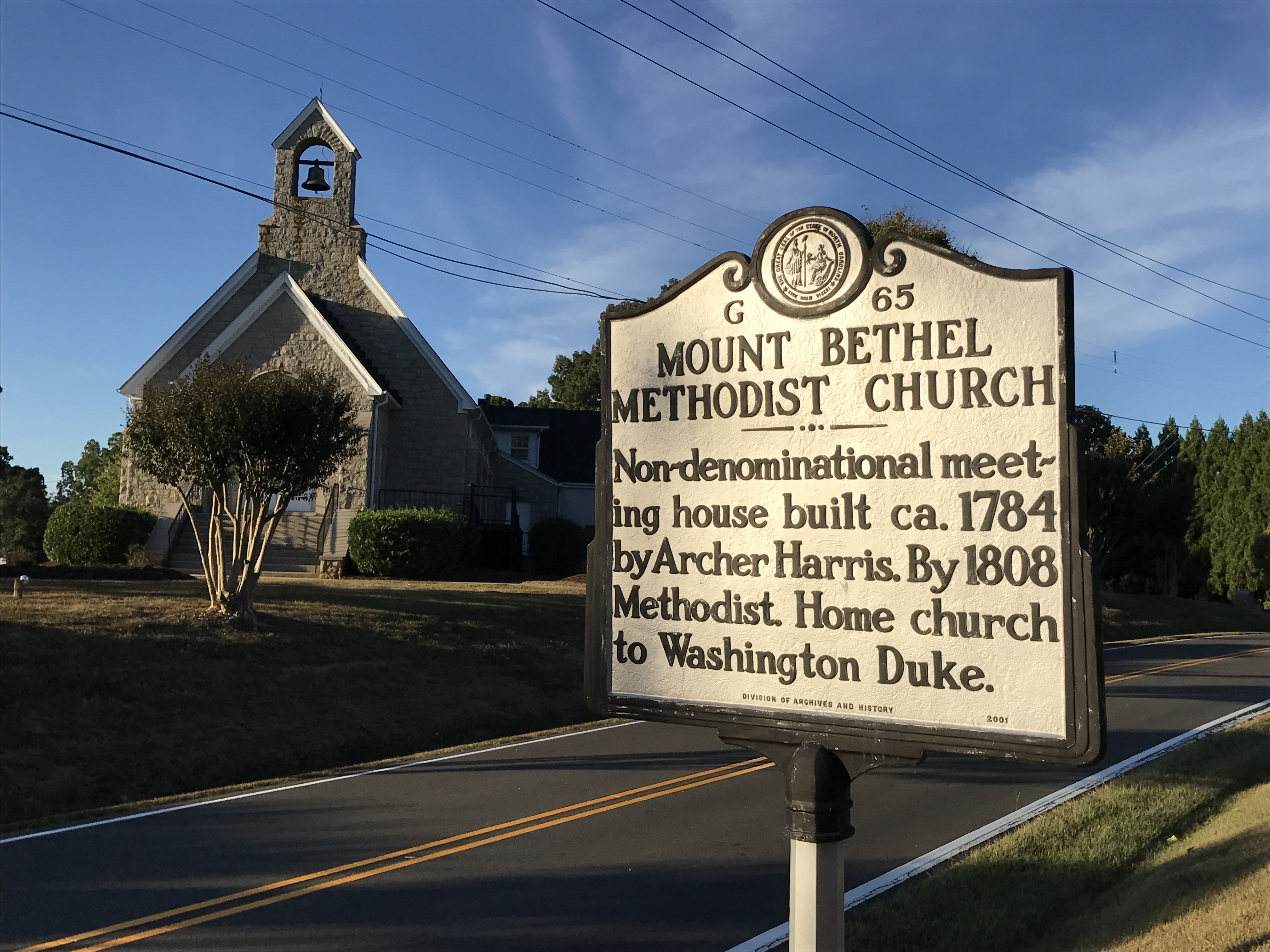 Mount Bethel Methodist Church with historic marker in the foreground